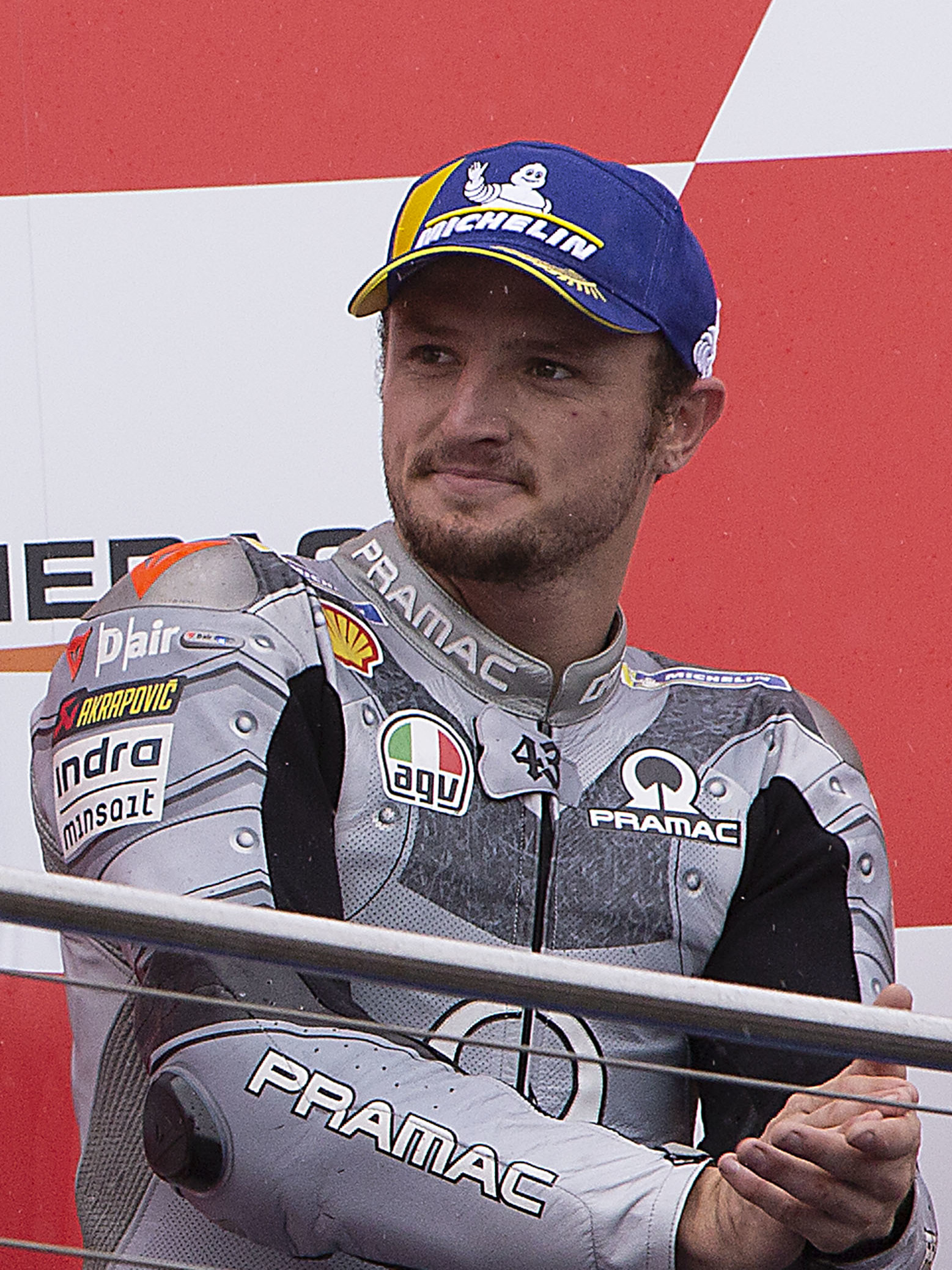 Marc Márquez and Jack Miller, holding his trophy and celebrating on the podium after finishing first and third at the 2019 Australian Grand Prix.